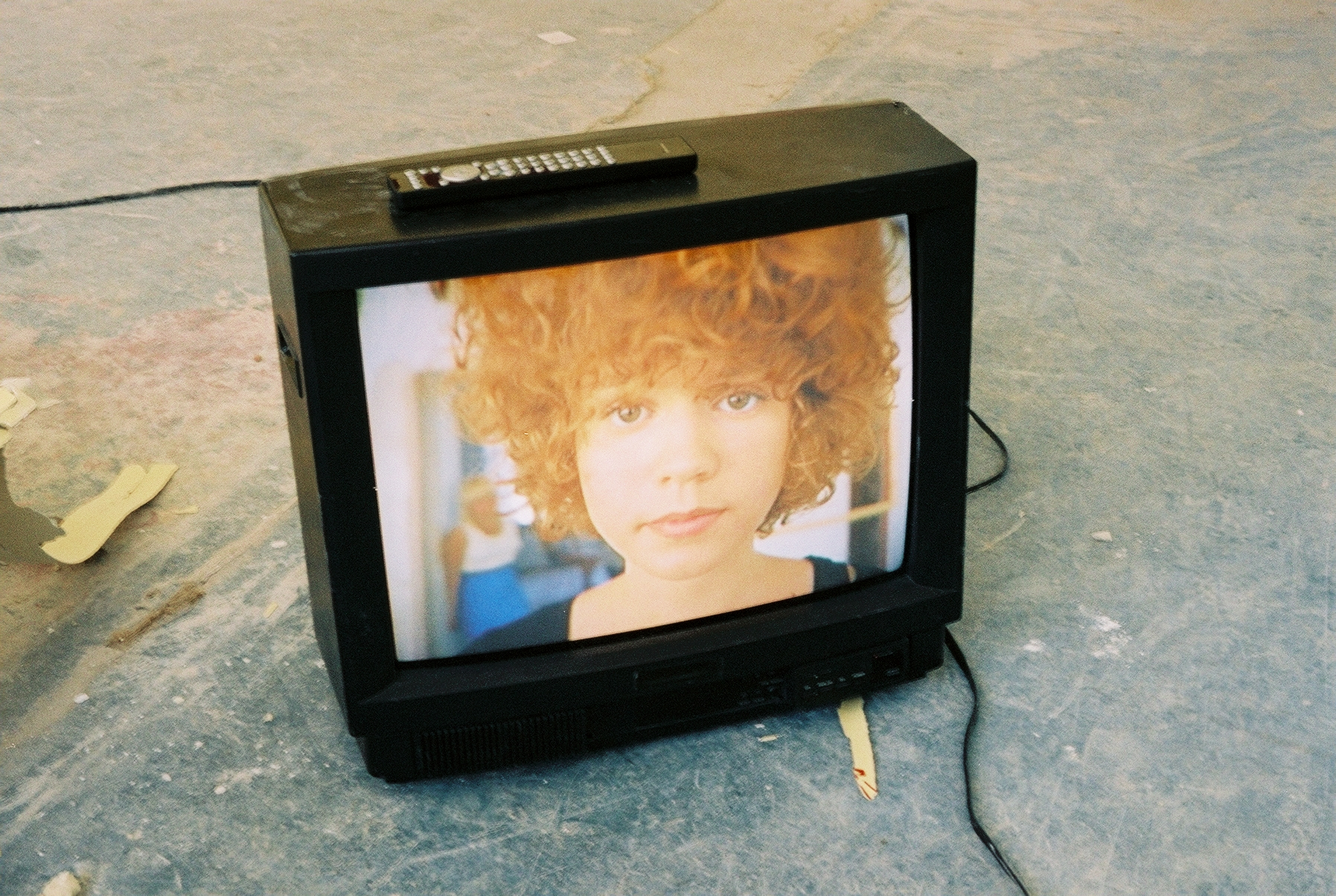 Linnea Jonsson, Those Dancing Days